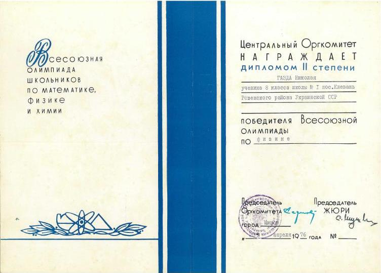 Diploma of 2 degrees winner of the All-Union competition of young physicists in Minsk, 1986, Nicholas Gazda, Klevan SSH№1